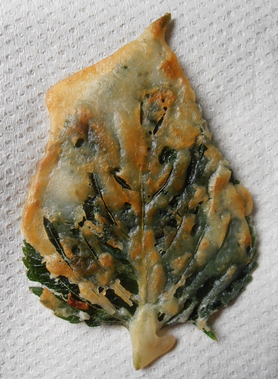 Kkaennip-bugak (deep-fried perilla)